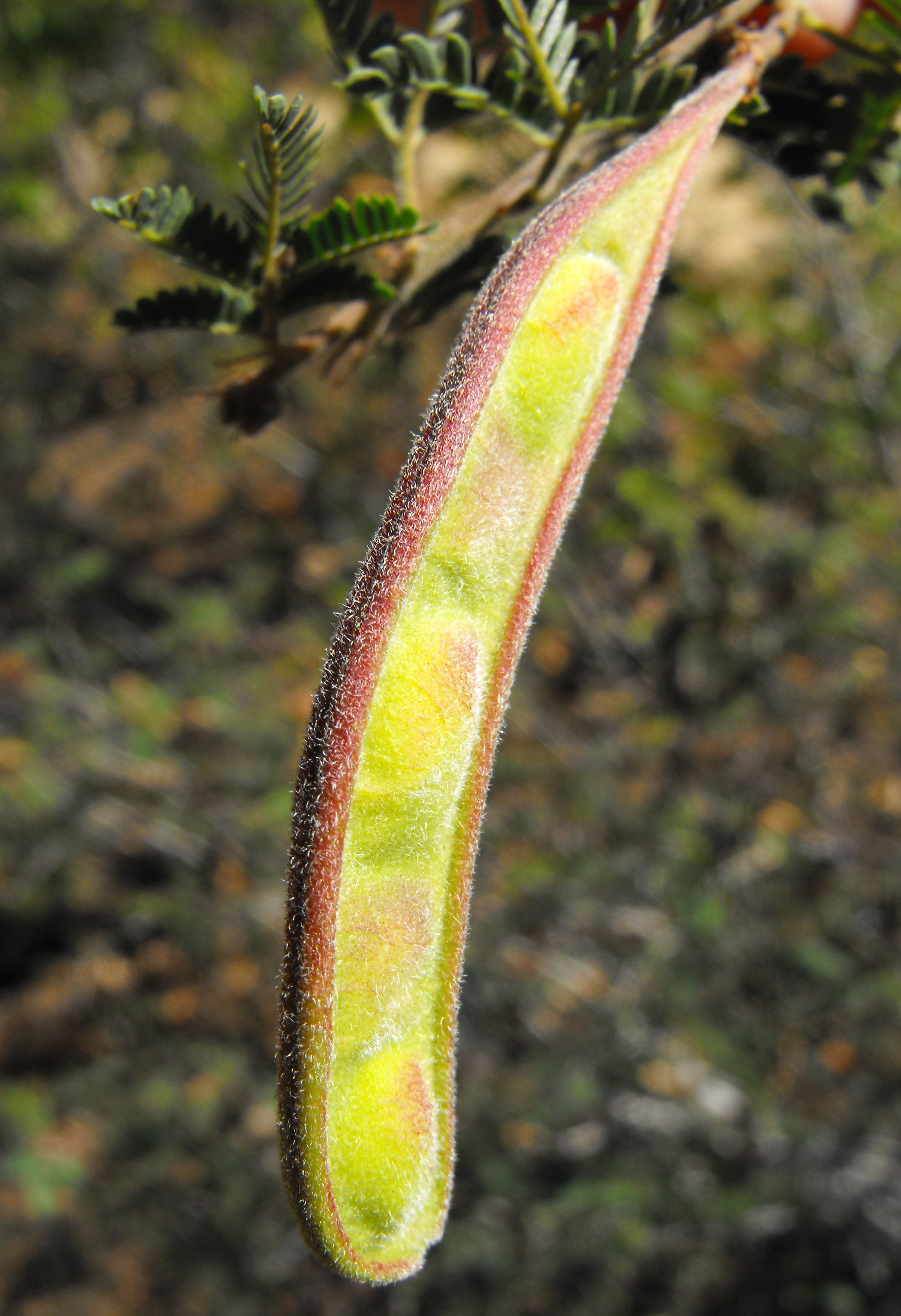 Calliandra californica seed pod in the Water Conservation Garden at Cuyamaca College, El Cajon, California, USA. Identified by sign.